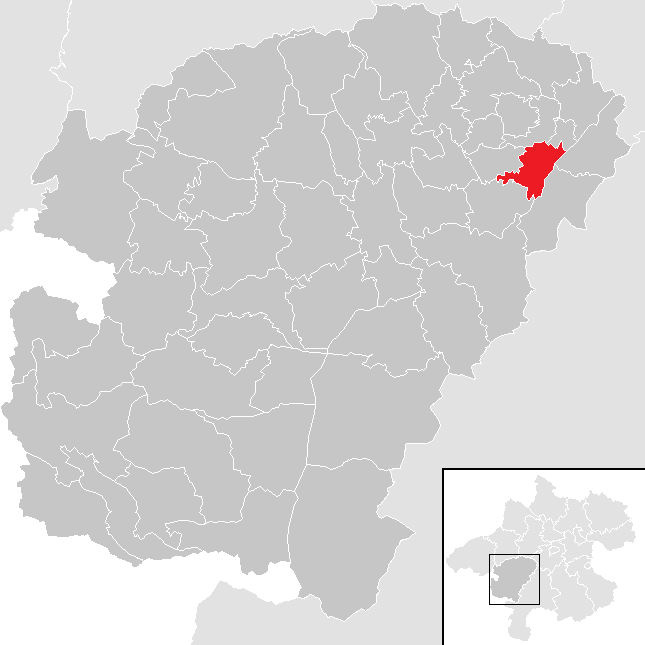 District Vöcklabruck